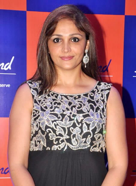 Sandali Sinha at Celebs grace Sun N Sands' anniversary bash